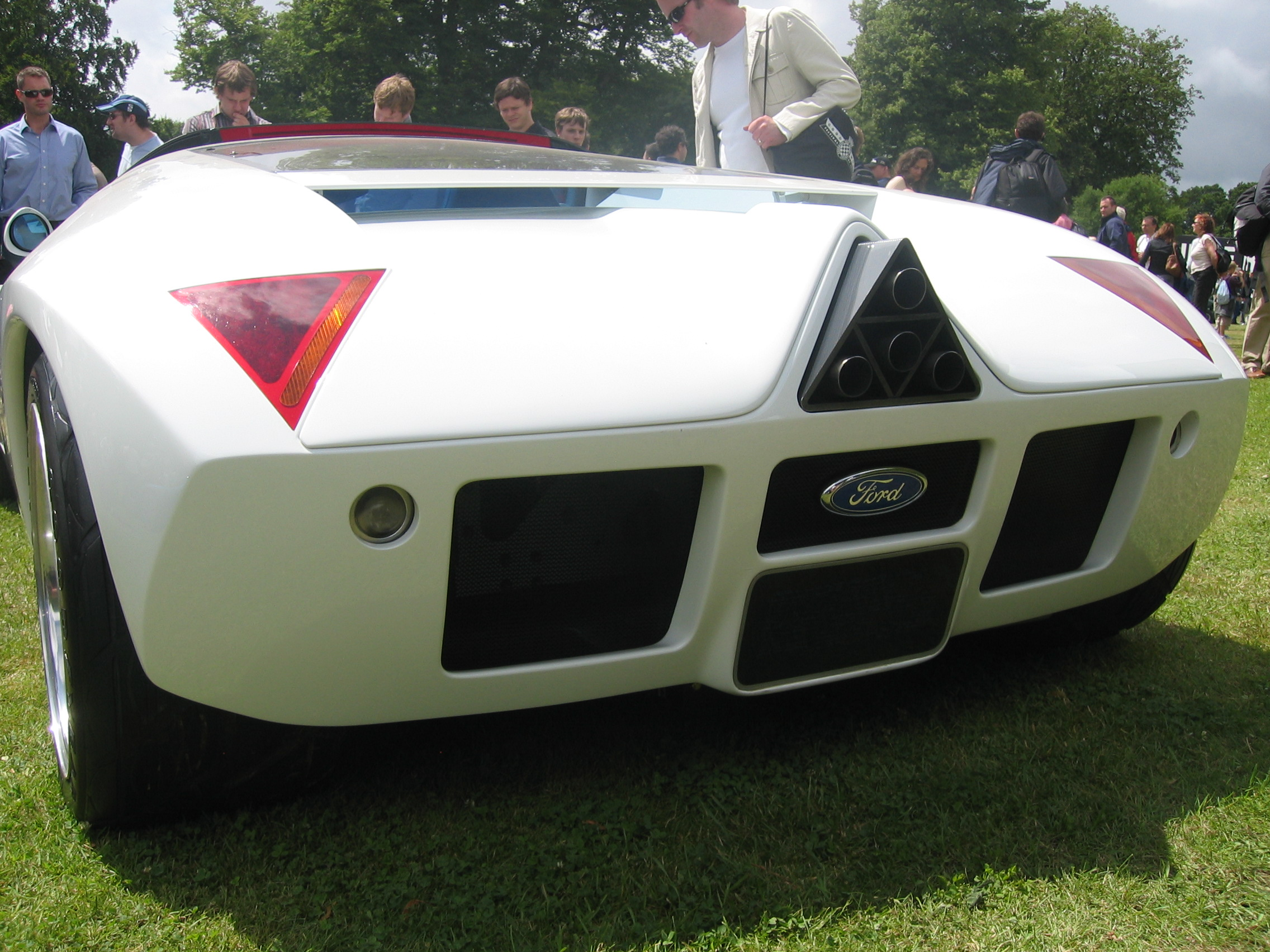 From Goodwood Festival of Speed 2008, Ford GT90